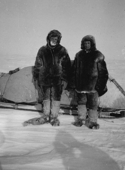 Ejnar Mikkelsen and Iver Iversen on the day before they left the rest of the Alabama expedition.